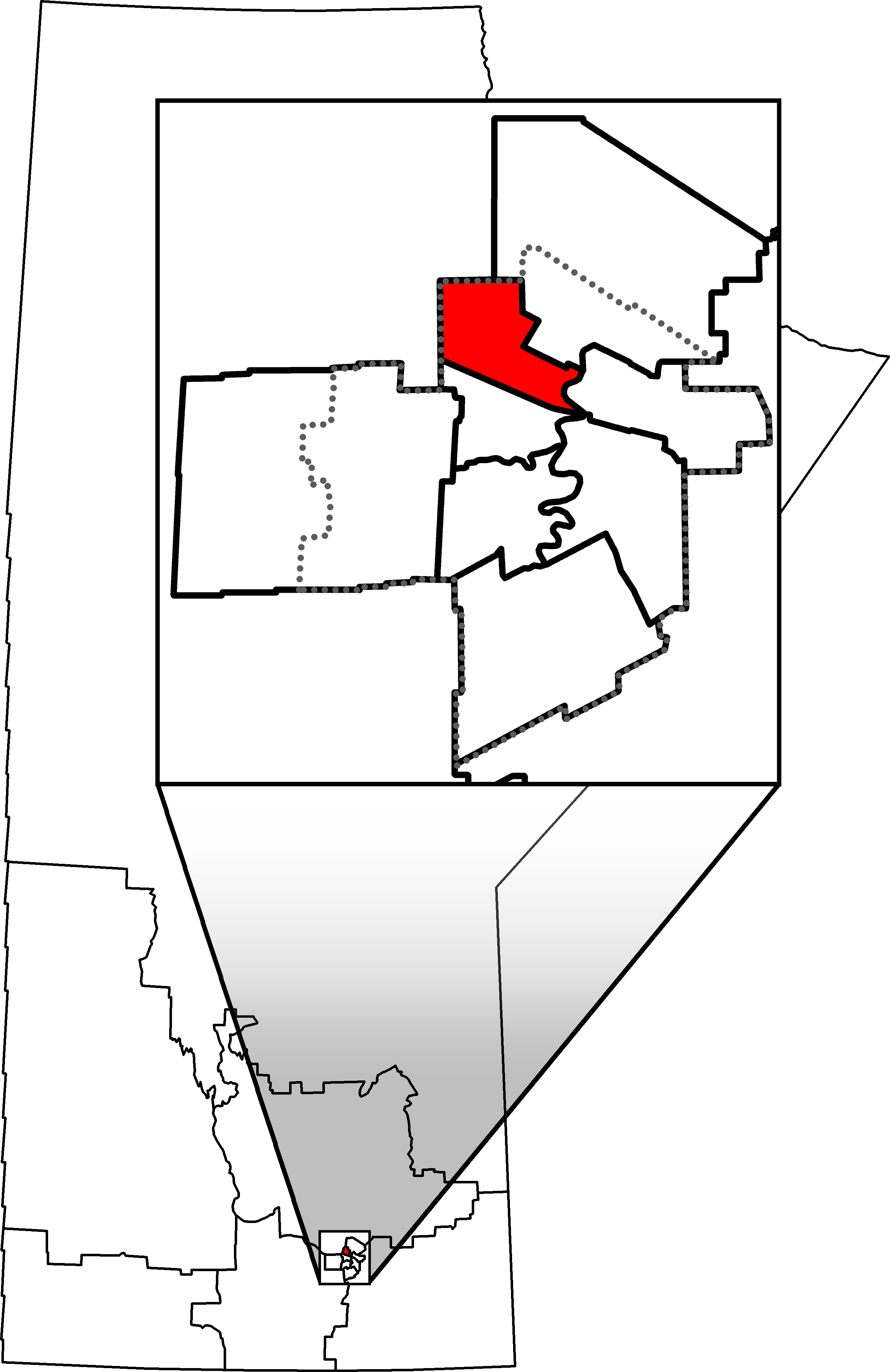 Federal Electoral District in Manitoba, Canada as of the 2013 Representation Order.